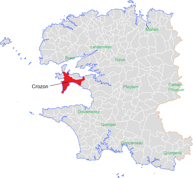 placement Crozon in departement Finistère